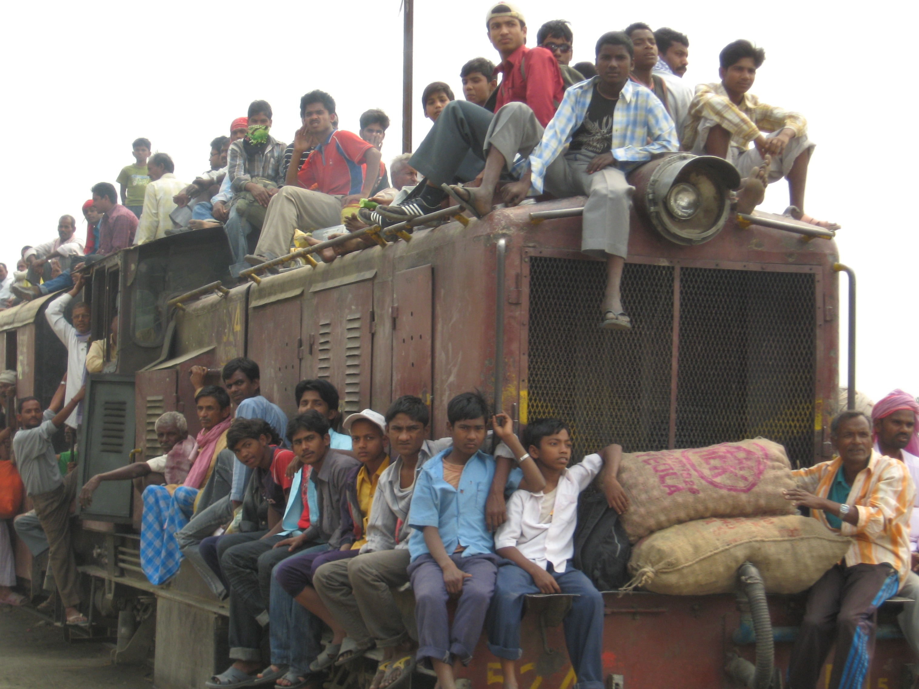 Diesel locomotive of Nepal Railways, stop in Khajuri. Object location26° 38′ 31″ N, 86° 06′ 53″ E